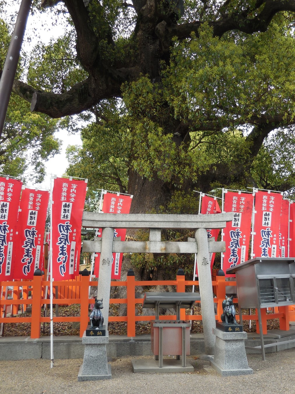 Sumiyoshi Taisha Campher tree